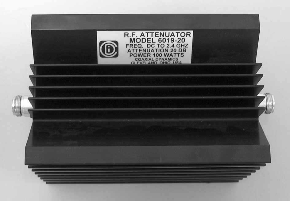 Coaxial Dynamics RF-power attenuator, 100 watt, DC-2.4GHz, used in testing radio transmitters.